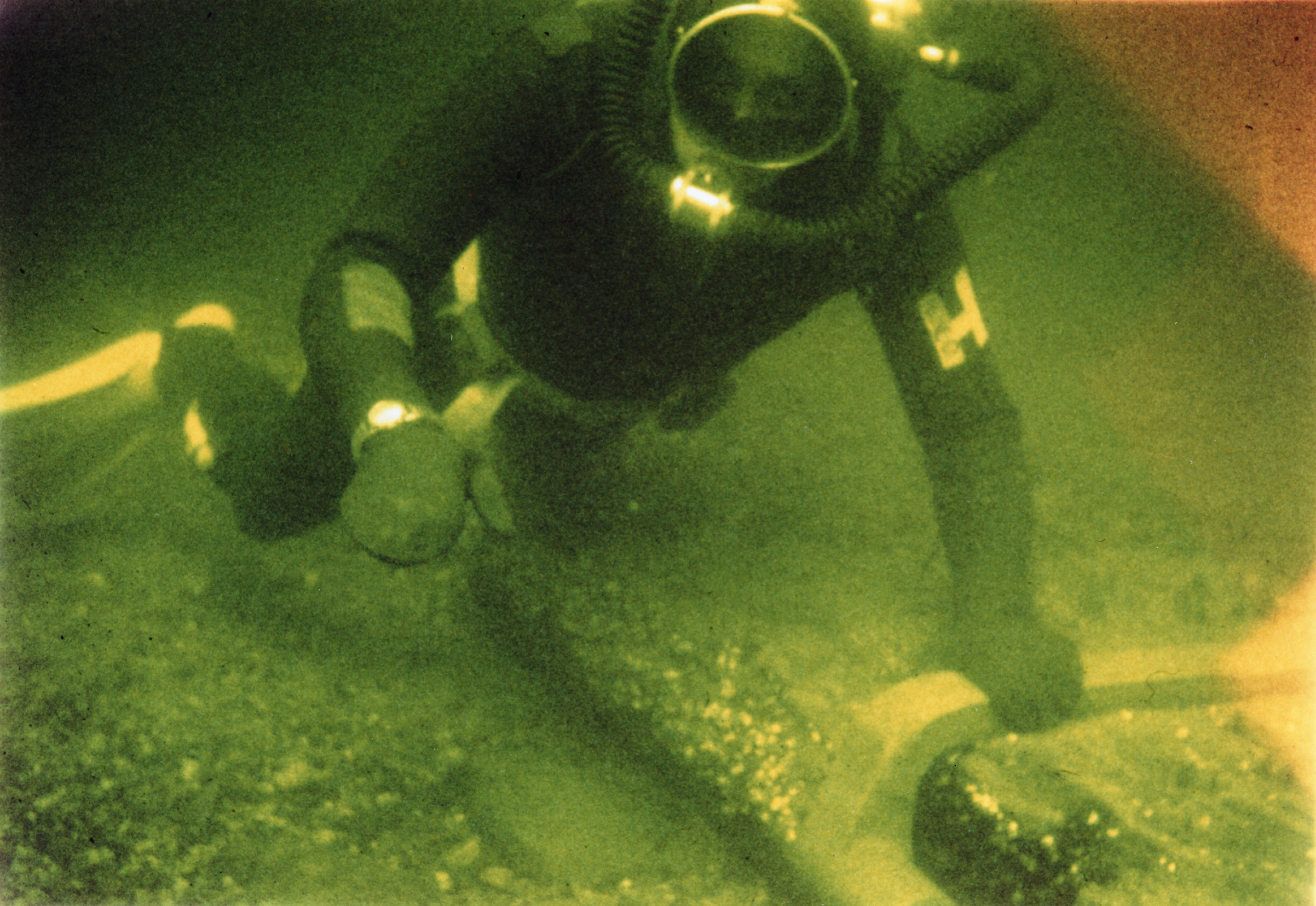 Sport divers at the wreckage of sunken steamship Skiftet.